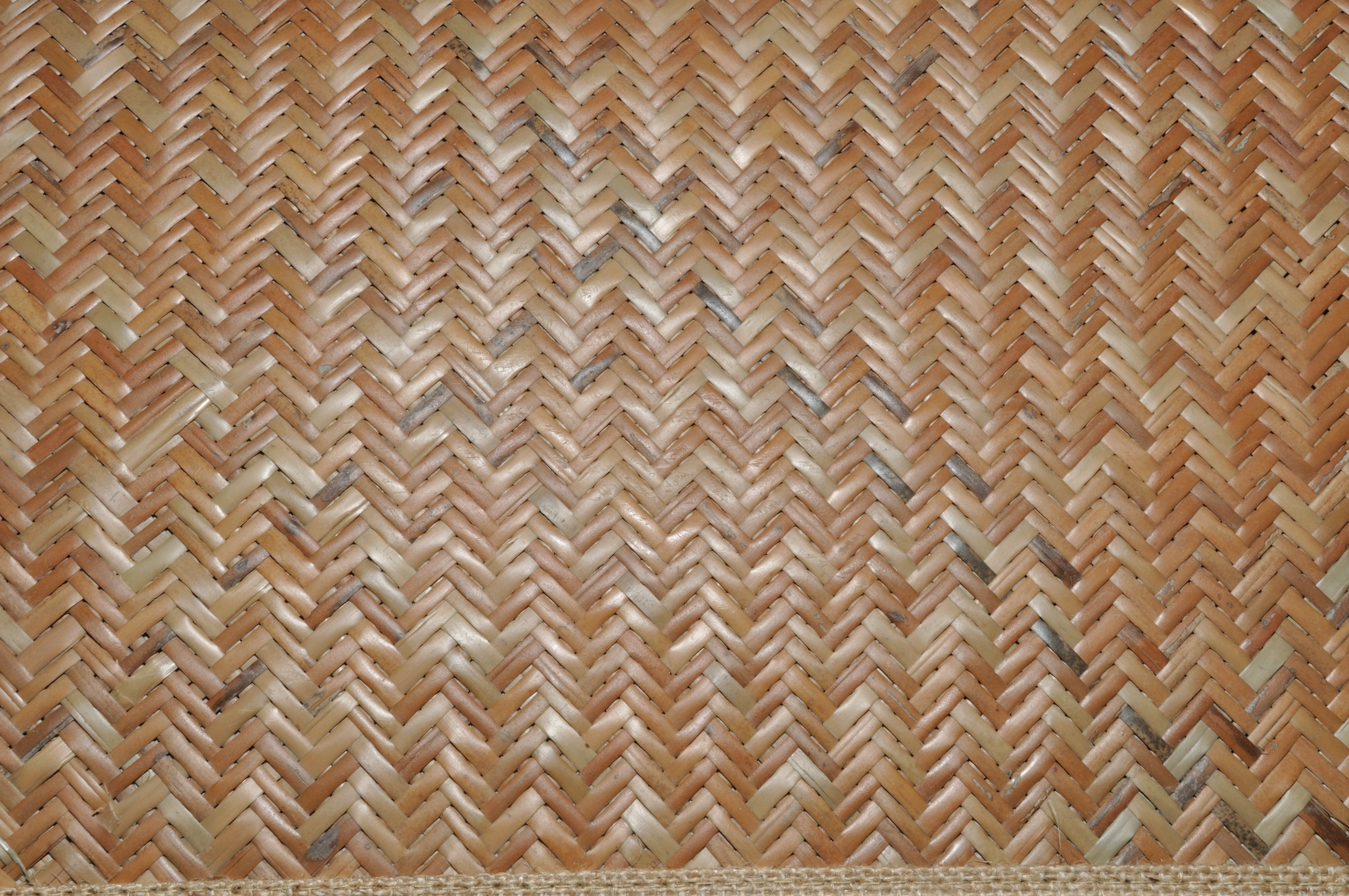 Photgraphed at Kolkata. This media file is uploaded with India loves Wikipedia event.